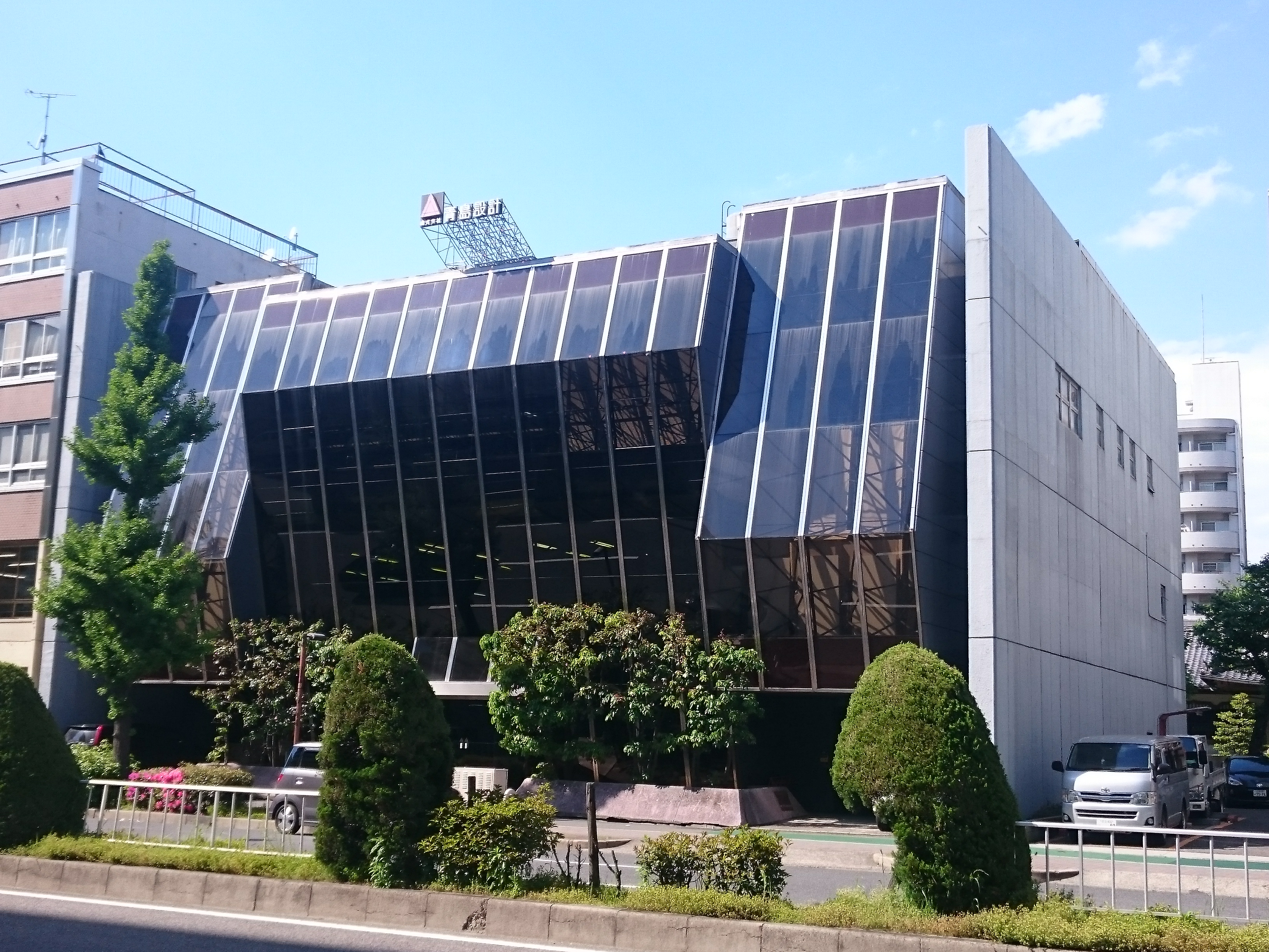 AOSHIMA Architects & Engineers Inc. headquarters, located at 4-14-51 Osu, Naka-ku, Nagoya, Aichi, Japan